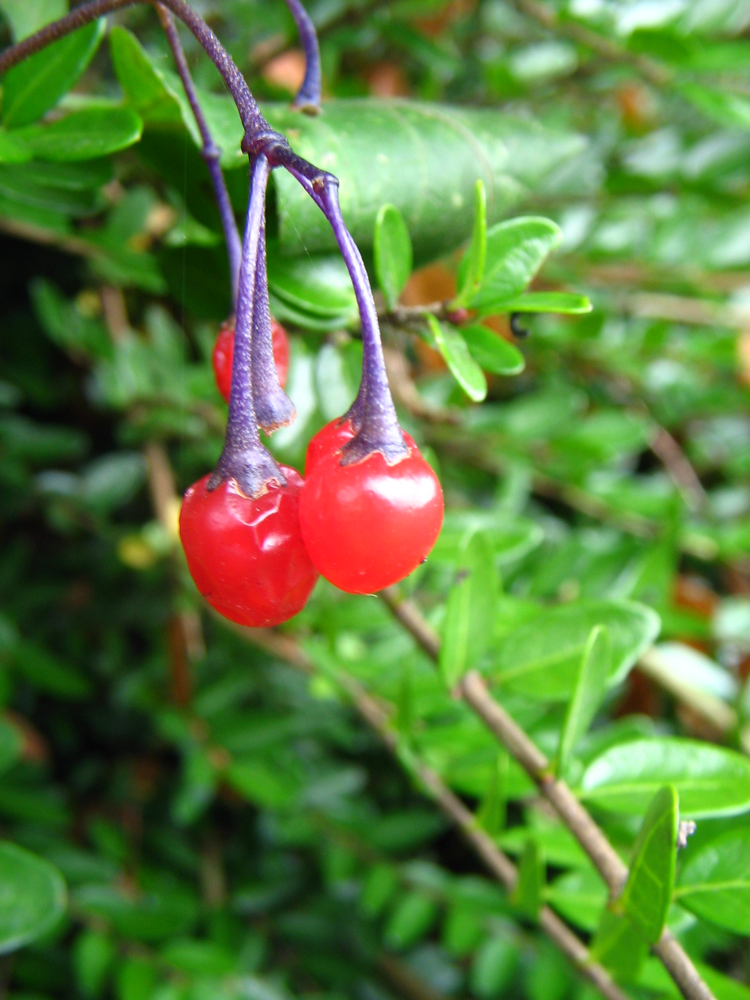 Close-up of bittersweet (Solanum dulcamara) fruits.